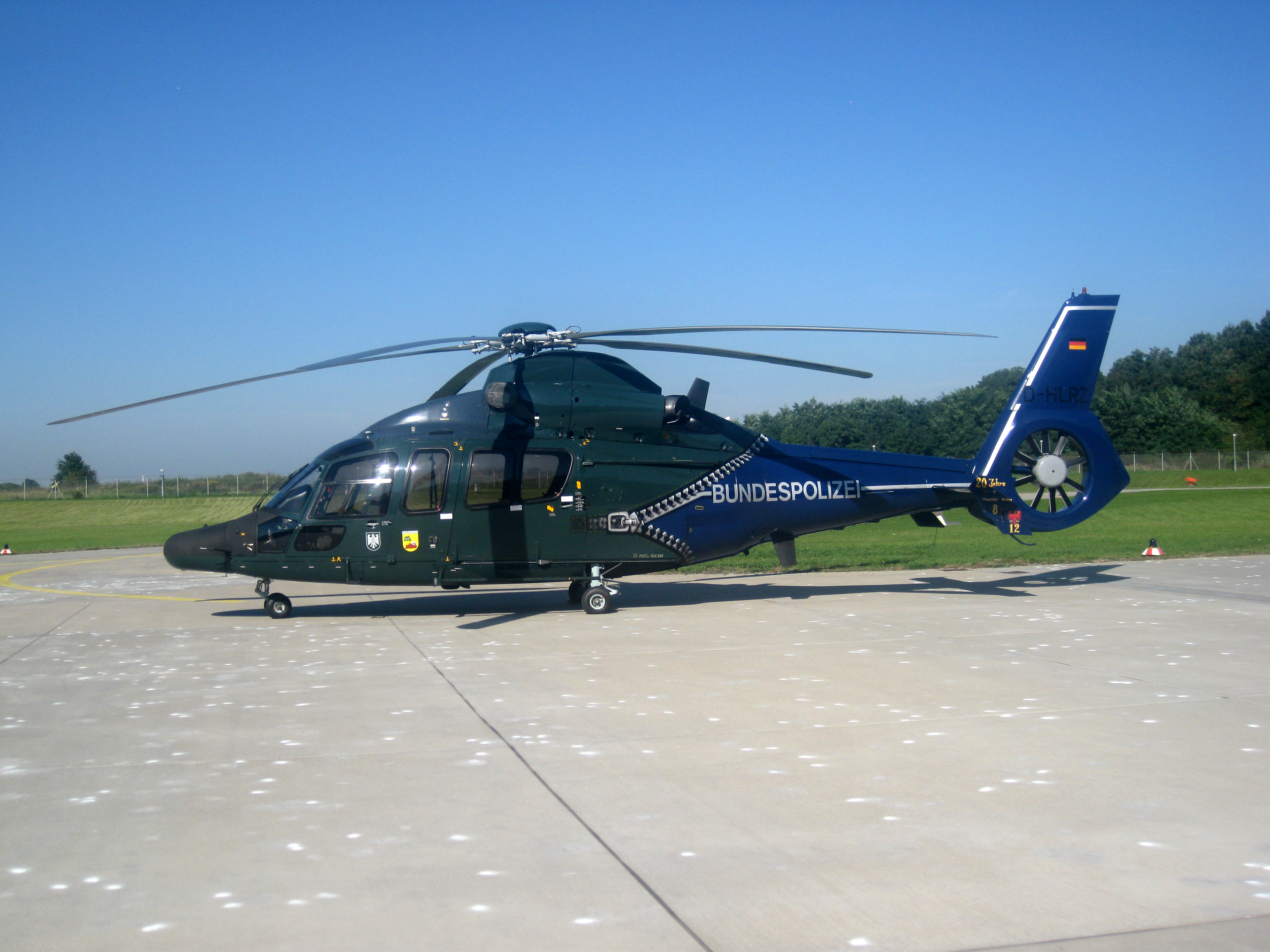 A Eurocopter EC 155 of the German Federal Police